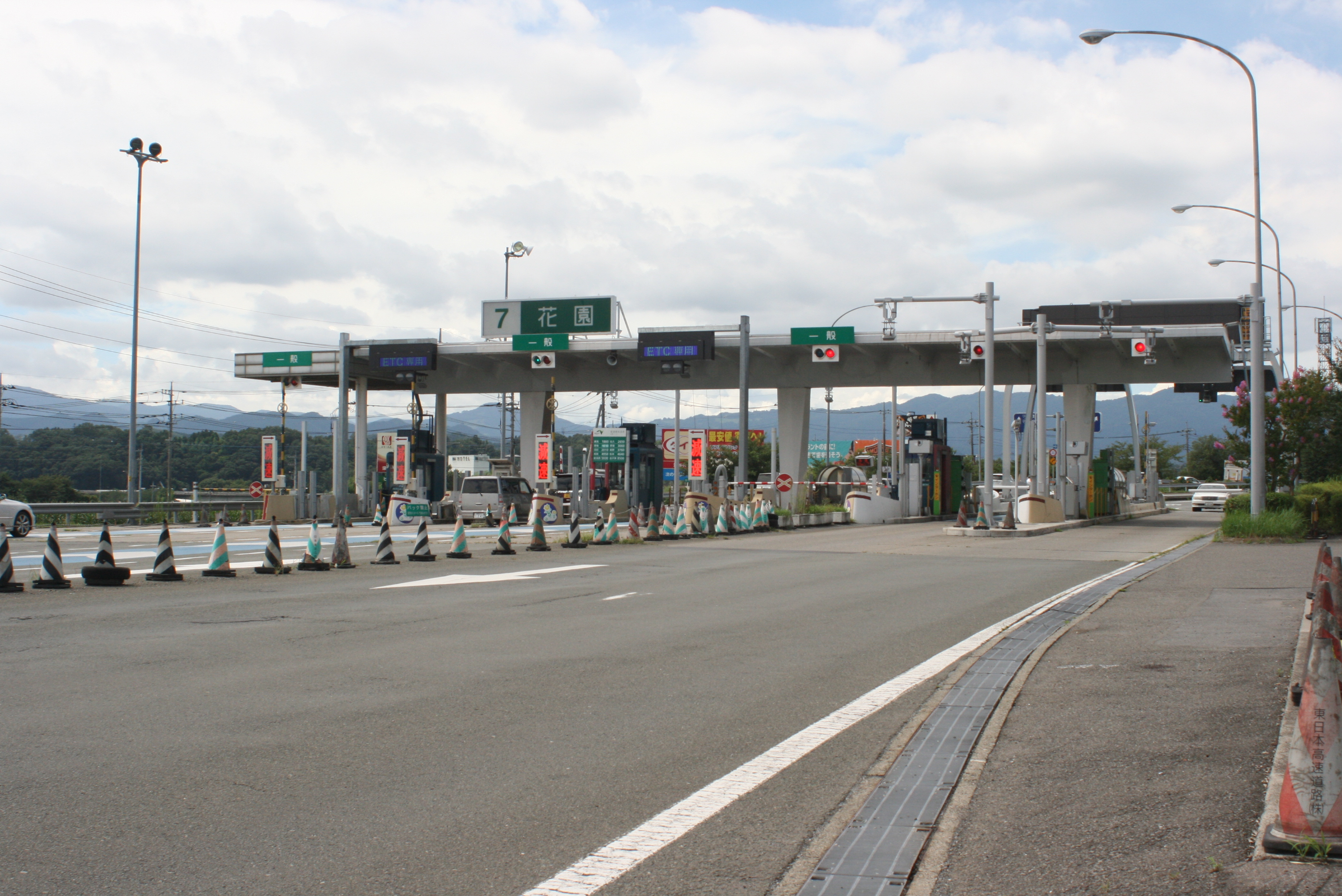 Tollgate of Hanazono interchange of Kan-etsu expressway